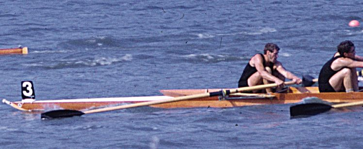 The New Zealand coxed four at the 1971 European Rowing Championships in the final, showing Noel Mills (bow) and Ross Collinge (seat 2).